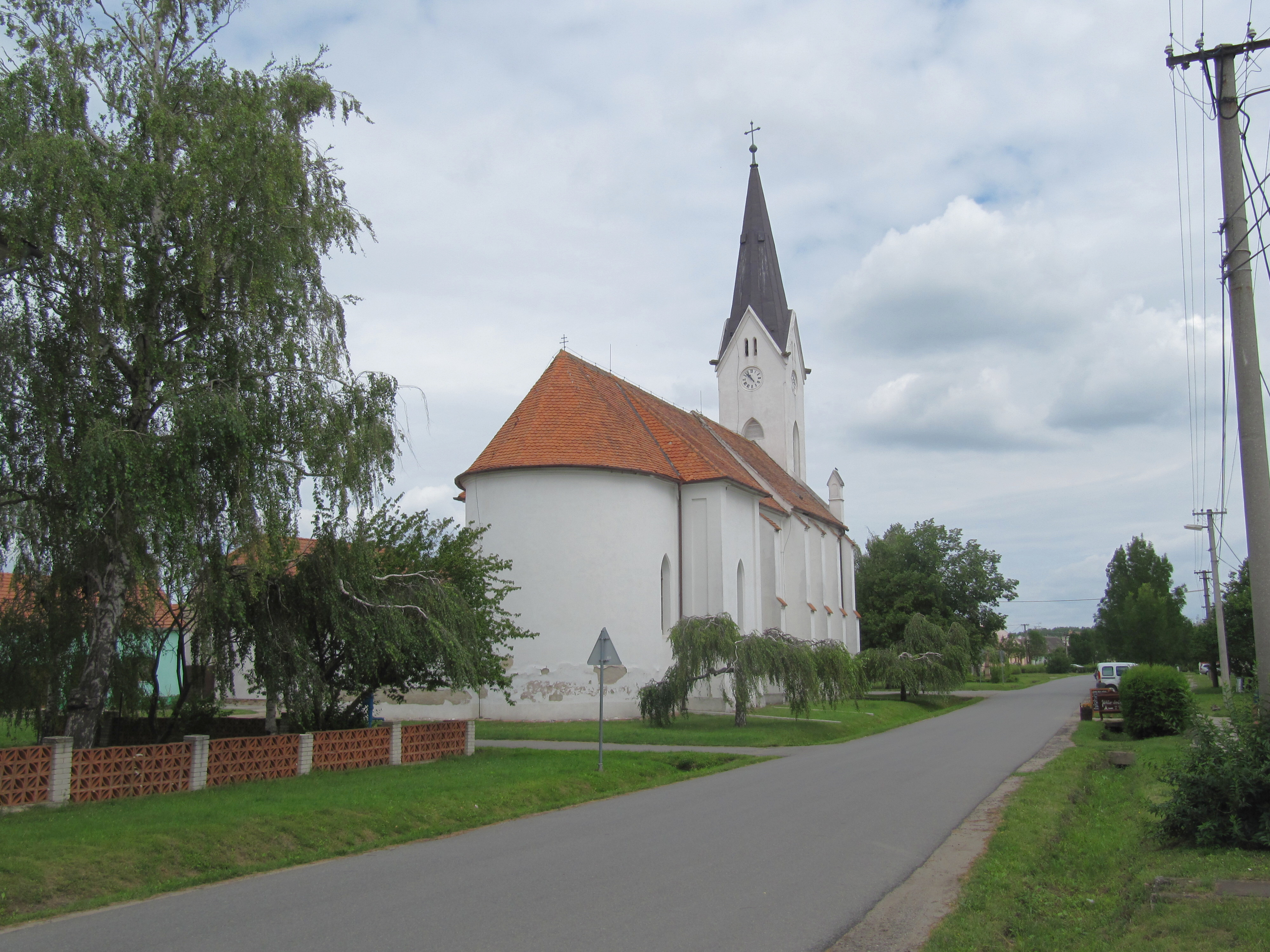 Nový Přerov in Břeclav District, Czech Republic. Church of St. Michael the Archangel.